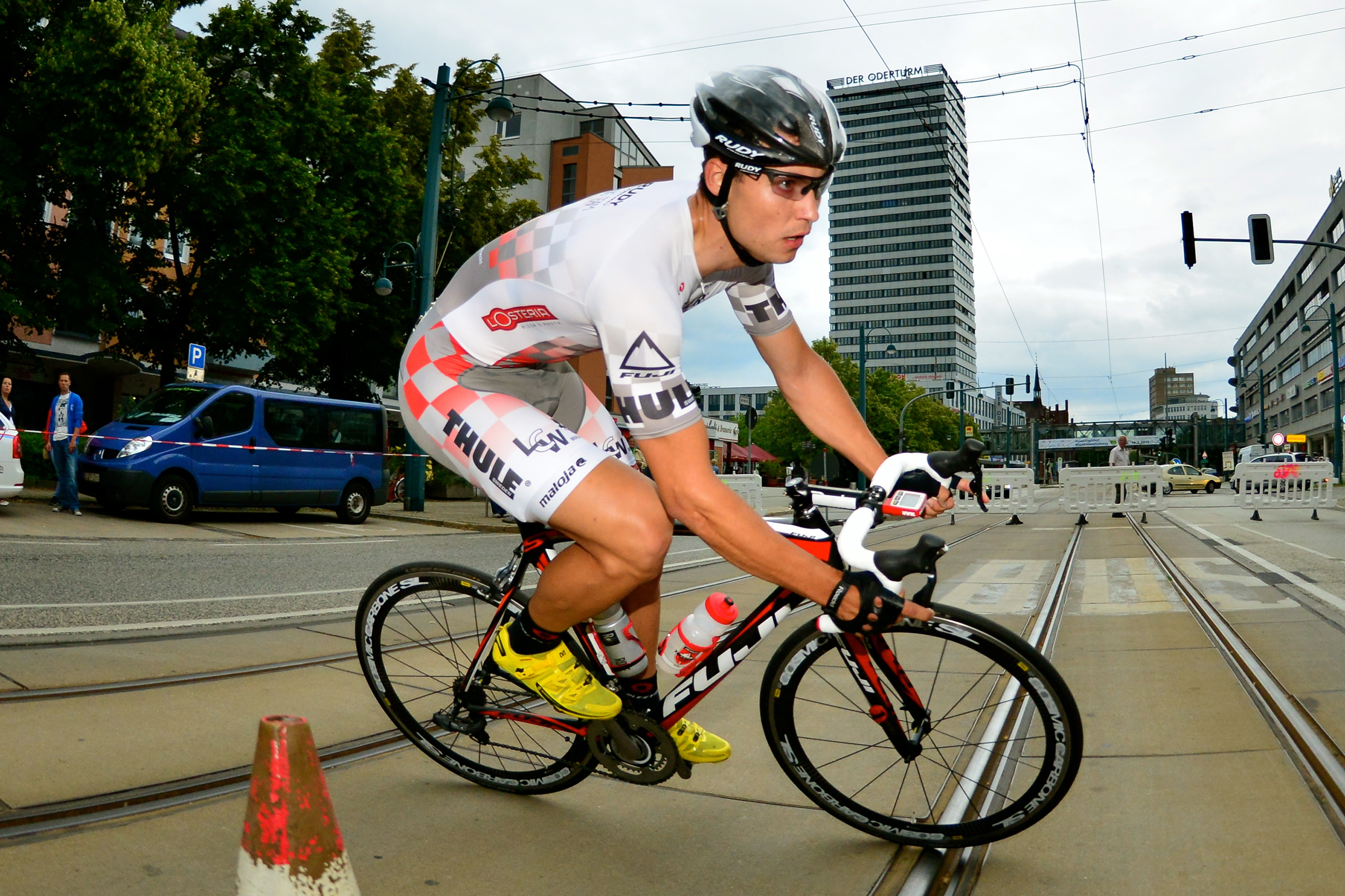 The german cyclist Nico Hesslich at the 34. Oderrundfahrt 2013, Frankfurt Oder, Brandenburg, Germany